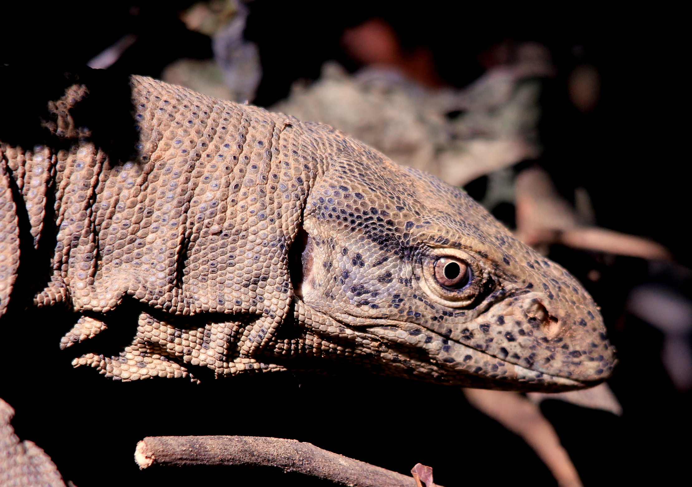 Indian Monitor lizards have long necks, powerful tails and claws, and well-developed limbs